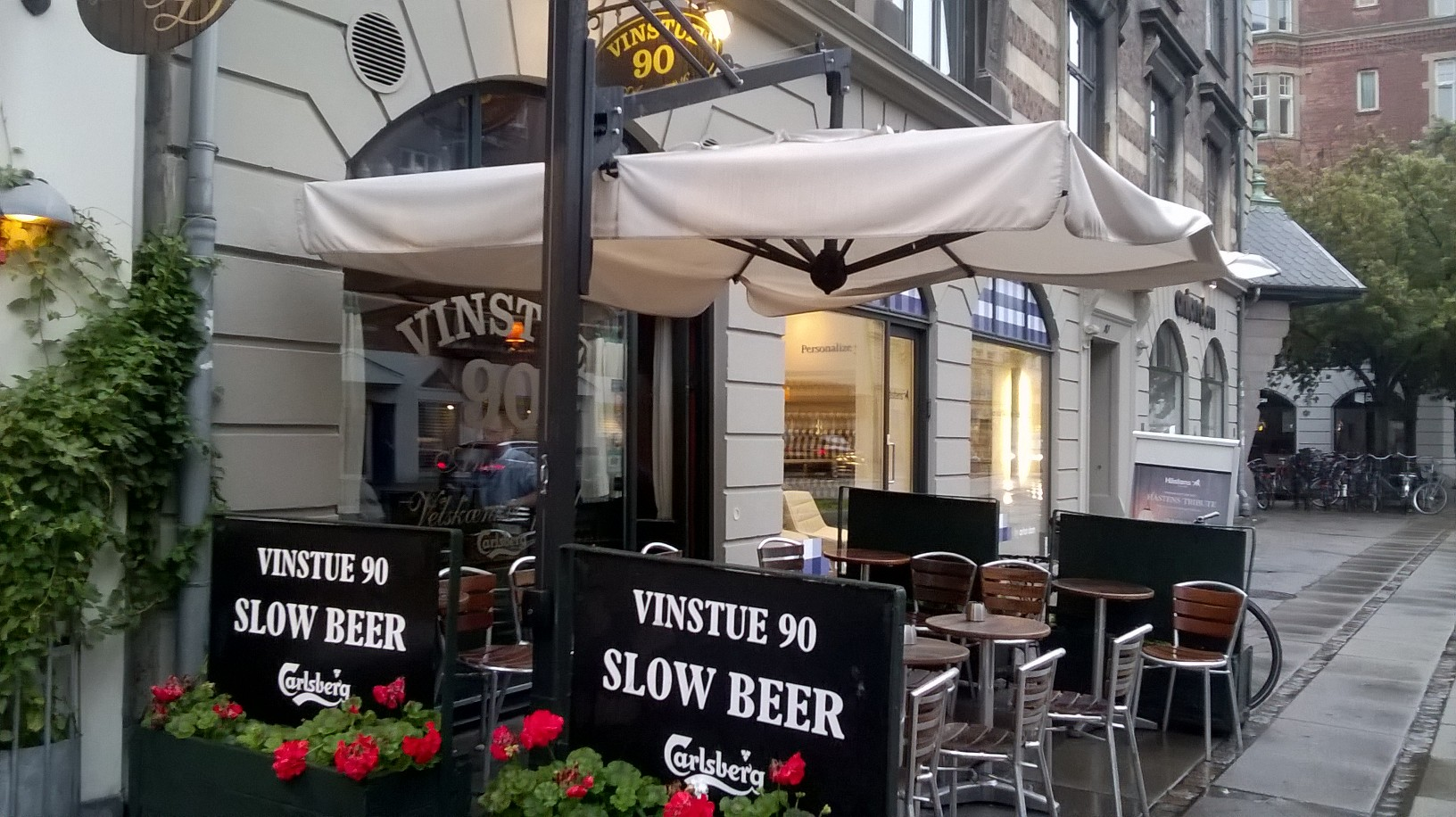 Vinstue 90 in Copenhagen.